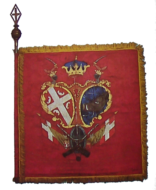 War flag used by the Voivodes of the First Serbian Uprising (1804-1814).